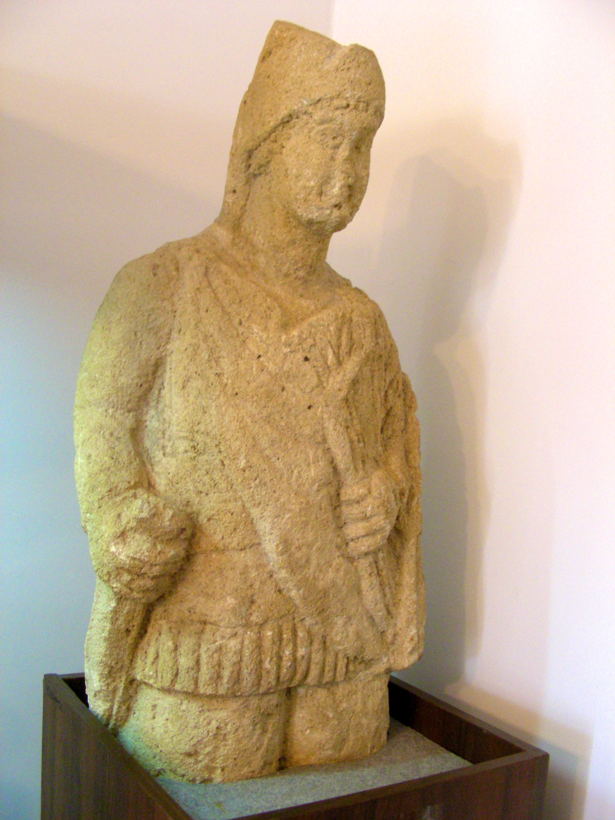 Sindi warrior statue. Limestone, I A.D. Kerch Archaeology Museum. Found in Taman Peninsula in 1896.